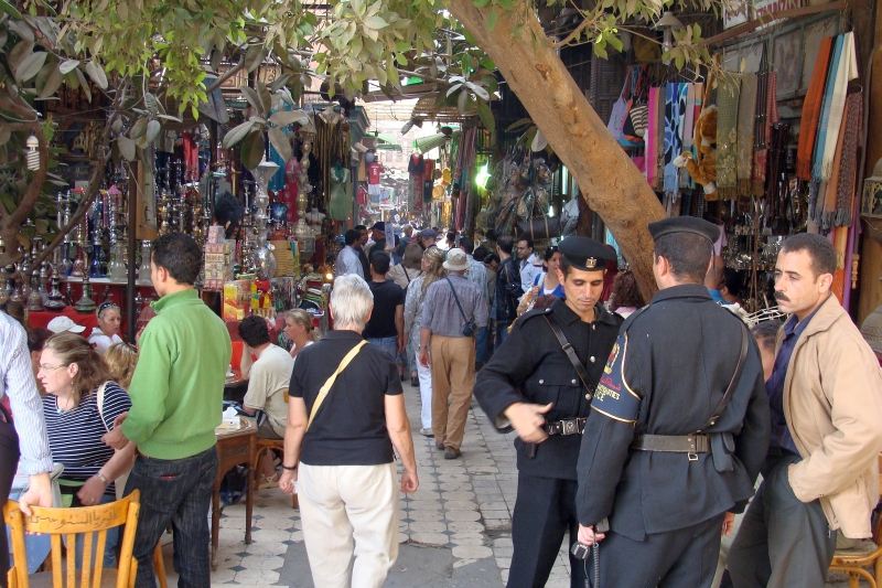 Egyptian policeman